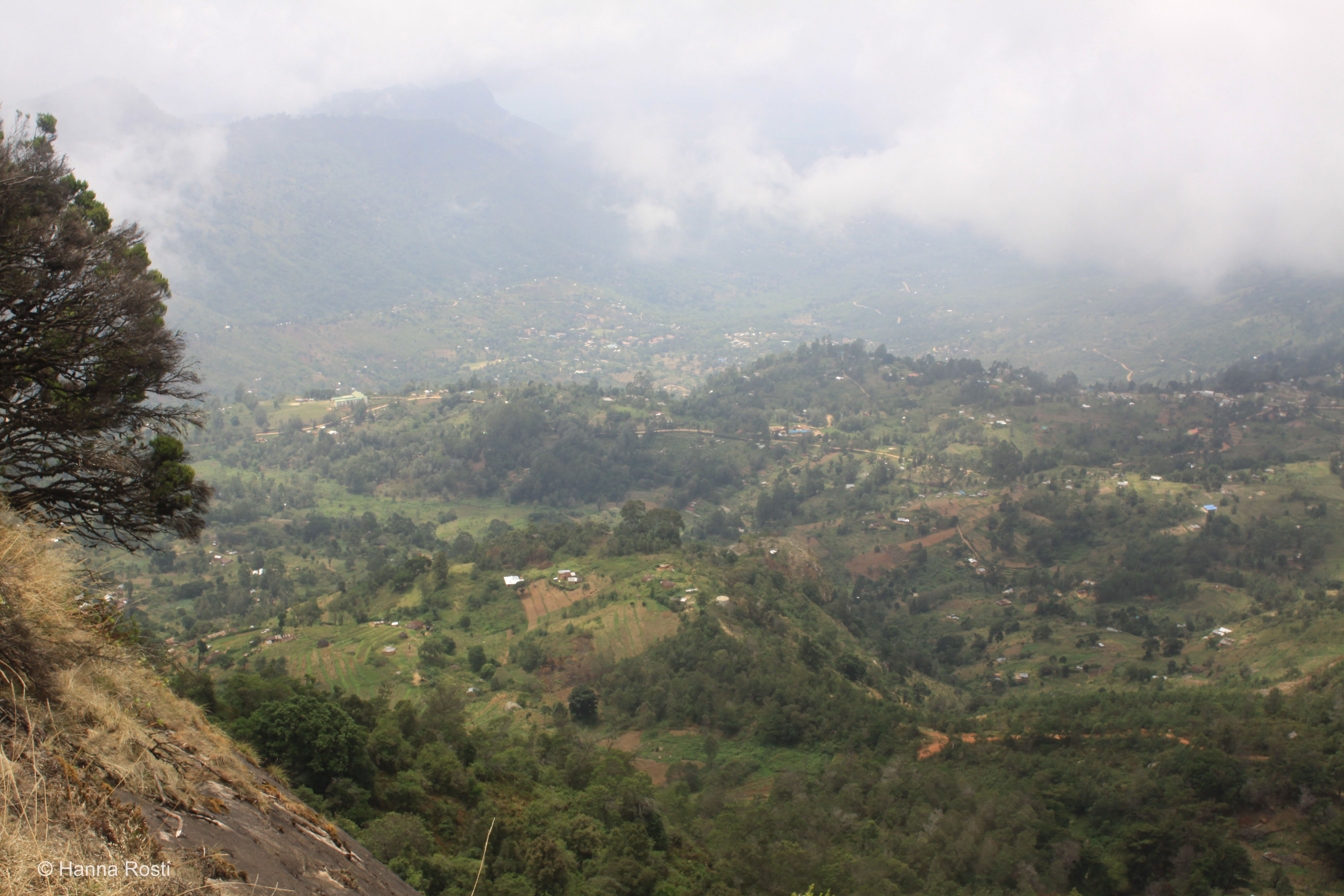 View from tallest peak of Taita Hills Vuria .